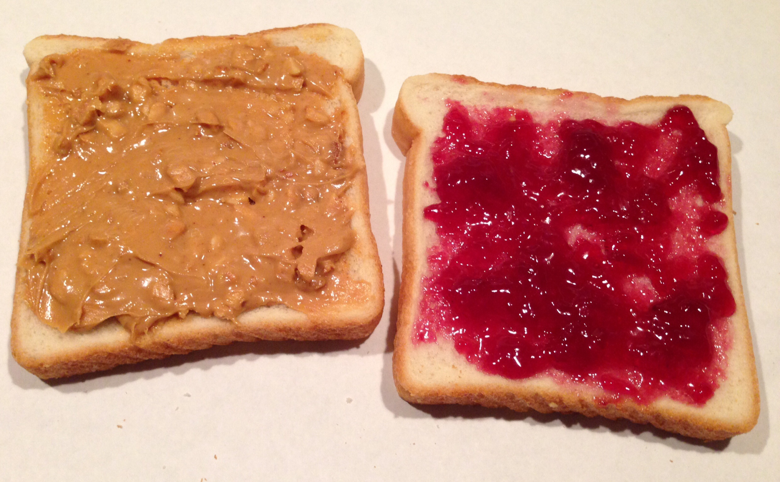 PBJ sandwich - open